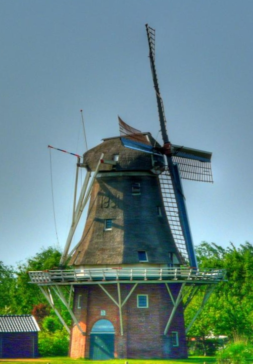 Windmill "De Hond" - Peasens.